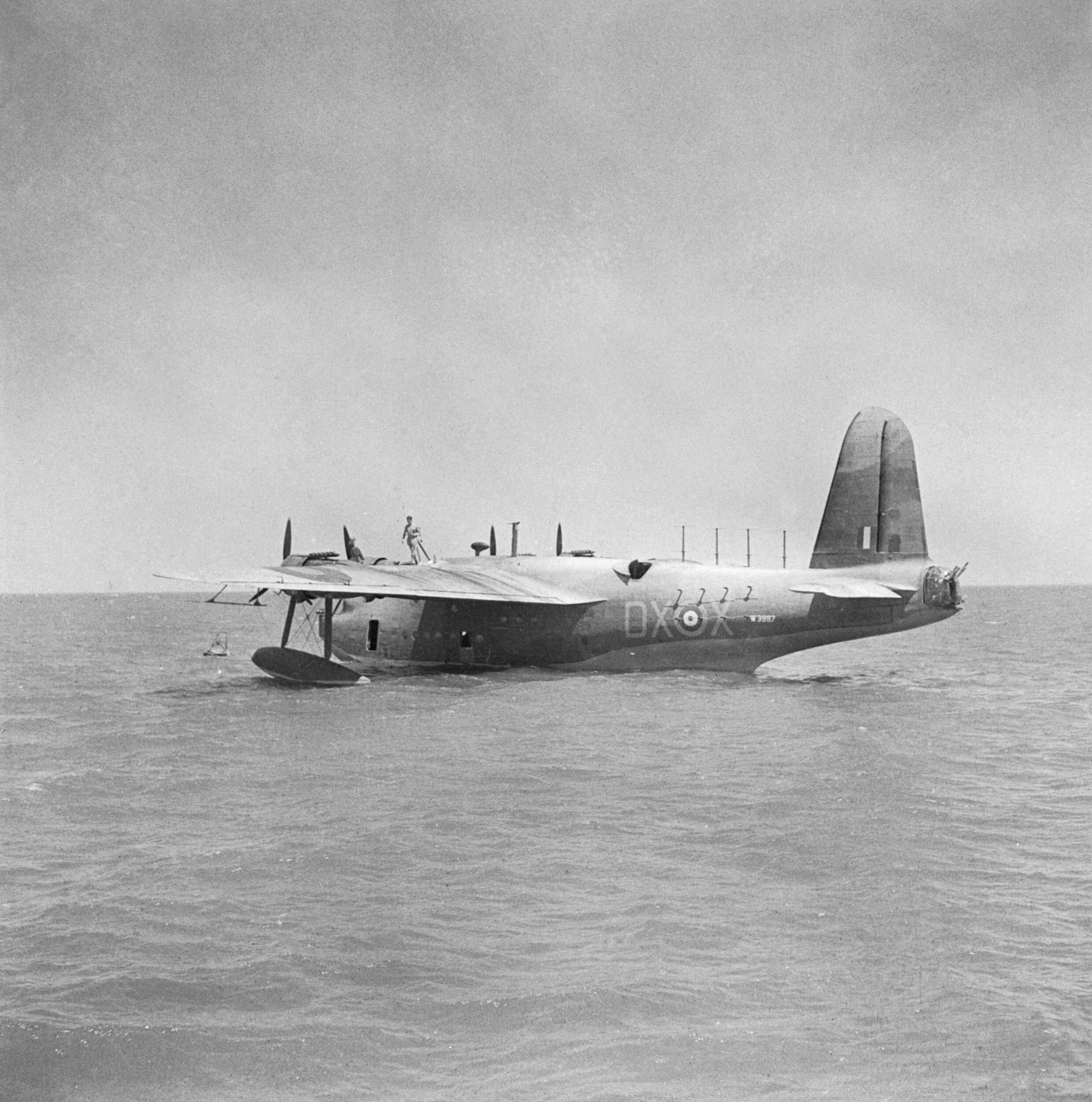 Royal Air Force- Operations in the Middle East and North Africa, 1939-1943. Short Sunderland Mark II, W3987 'DX-X', of No. 230 Squadron RAF, based at Aboukir, Egypt, moored off Alexandria.